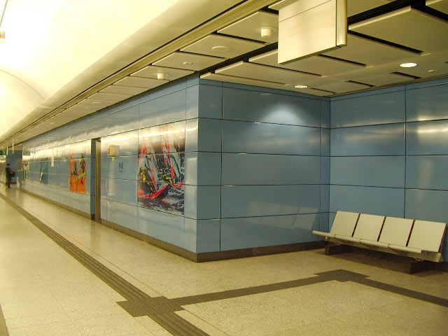 MTR Hong Kong, Olympic Station.